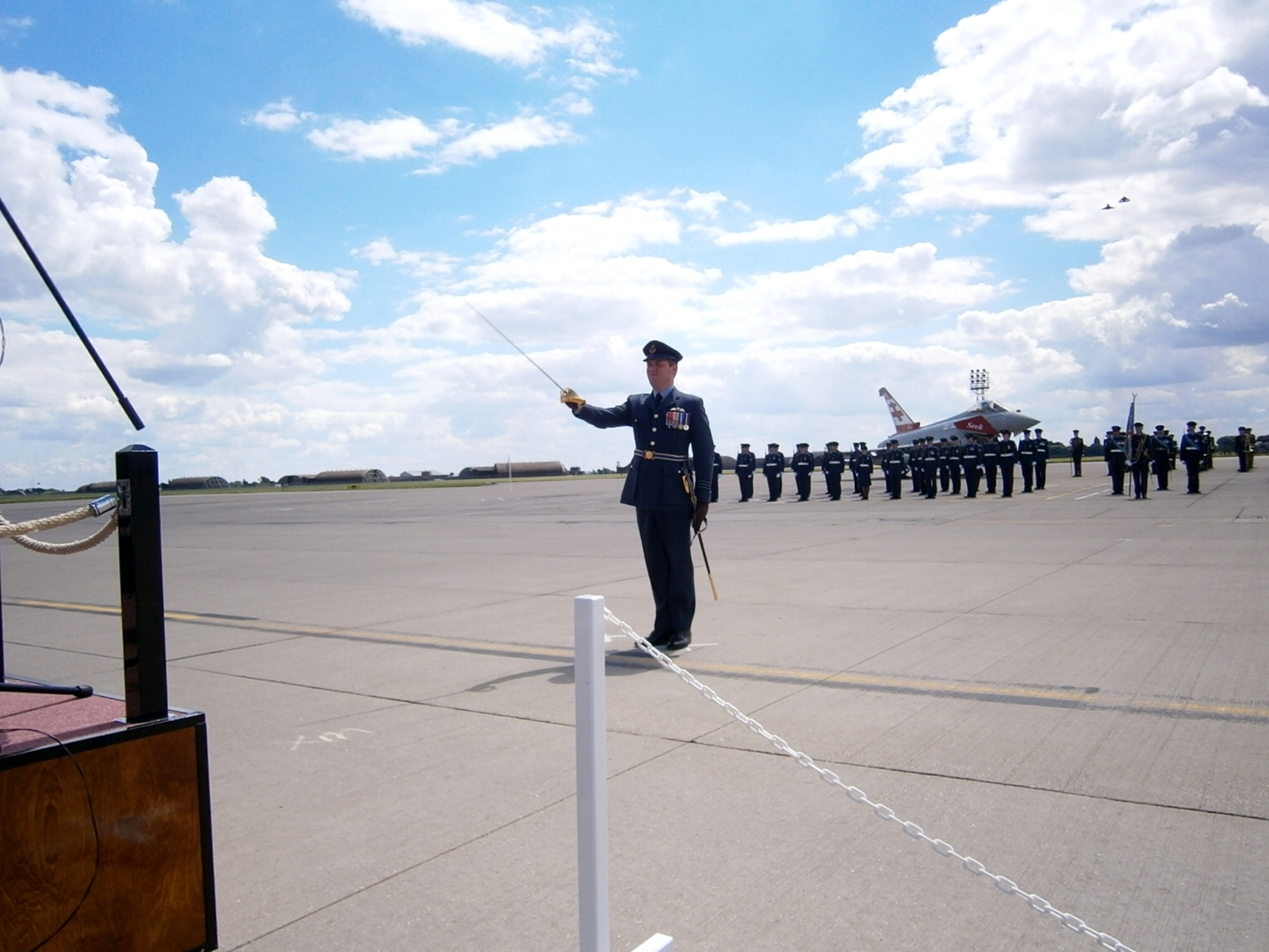 41 Squadron Centenary Parade with Wg Cdr Steve Berry giving the general salute as a Typhoon and Tornado arrive overhead for a flypast.